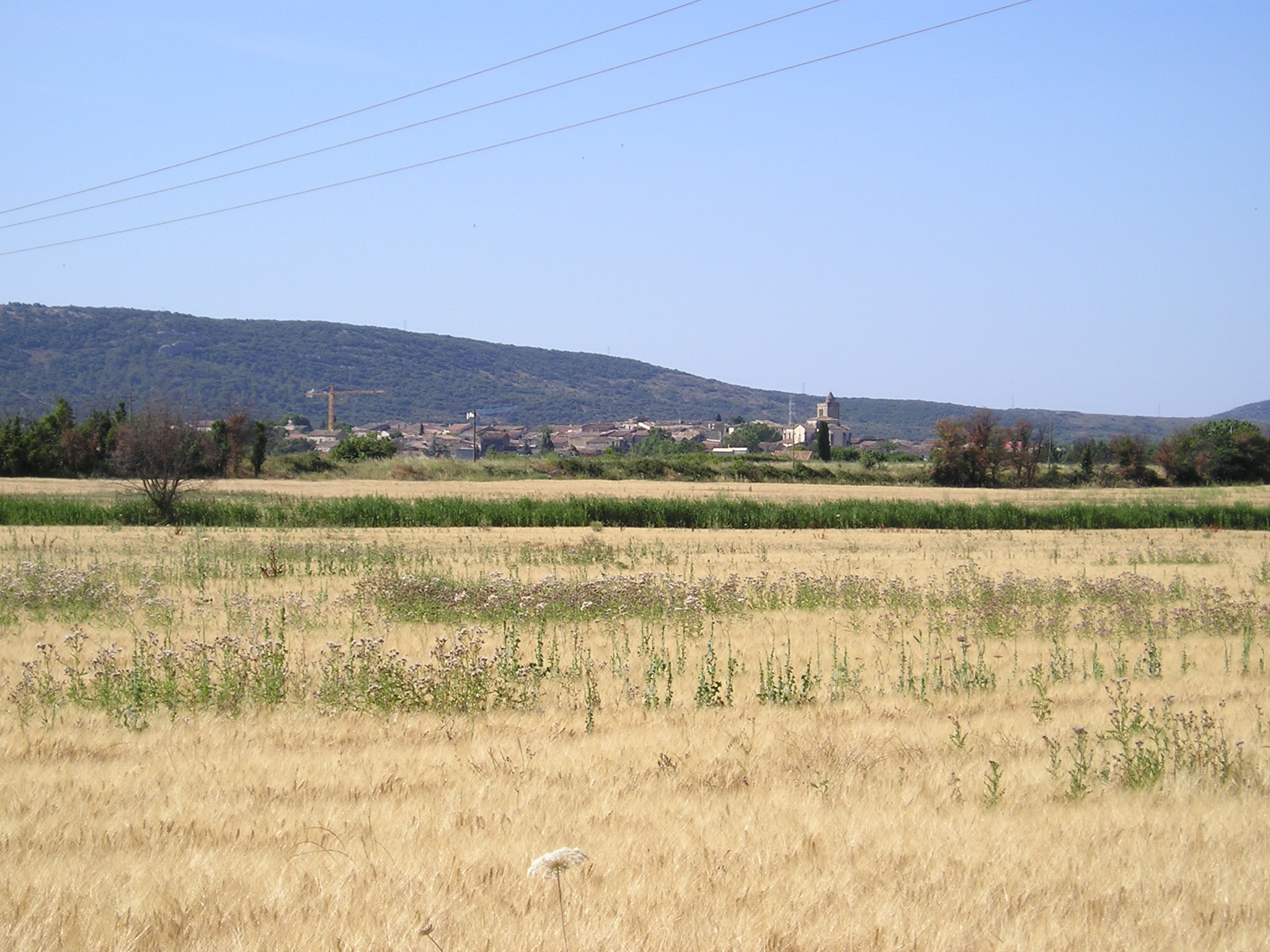 In Hérault, France, the town of Fabrègues viewed from North, near the crossing of roads D27 (to Saussan) and D185E1 (to Lavérune). In the background, the Gardiole range.